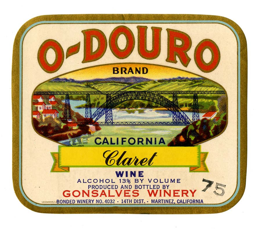 Repository: California Historical Society Collection: California wine label and ephemera collection Date: undated Call Number: Kemble Spec Col 07 Digital Object ID: Kemble Spec Col 07_011.jpg Preferred Citation: Wine label, Gonsalves Winery, O-Douro Brand California Claret Wine, California wine label and ephemera collection, Kemble Spec Col 07, courtesy, California Historical Society, Kemble Spec Col 07_011.jpg.